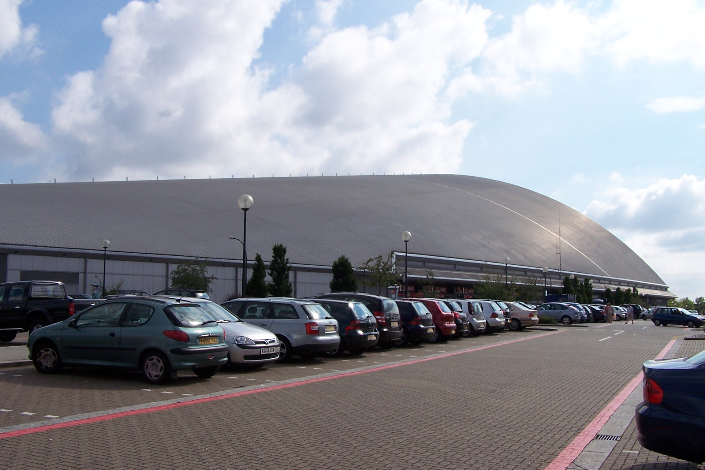 Xscape Dome in Milton Keynes